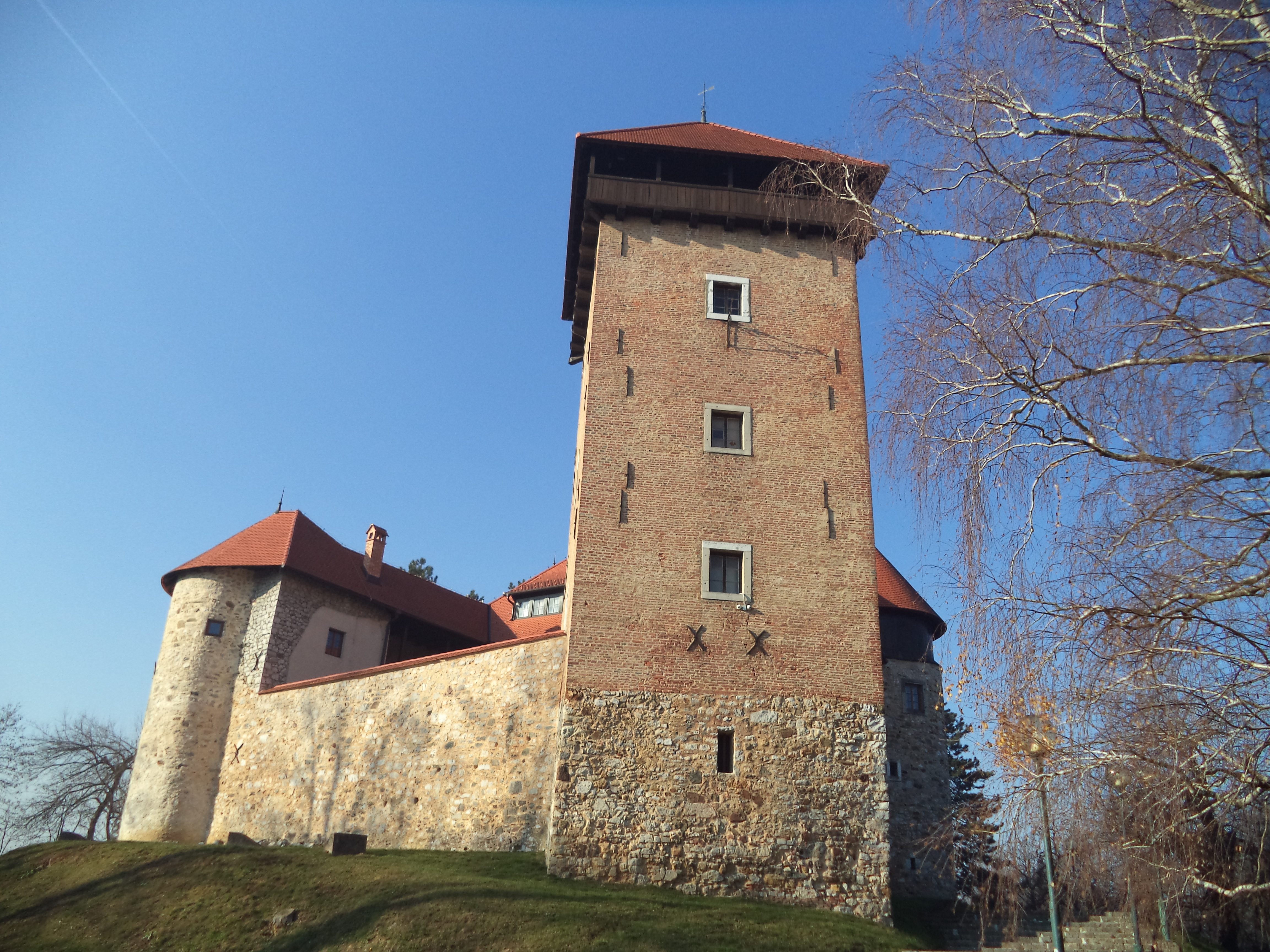 Dubovac Castle